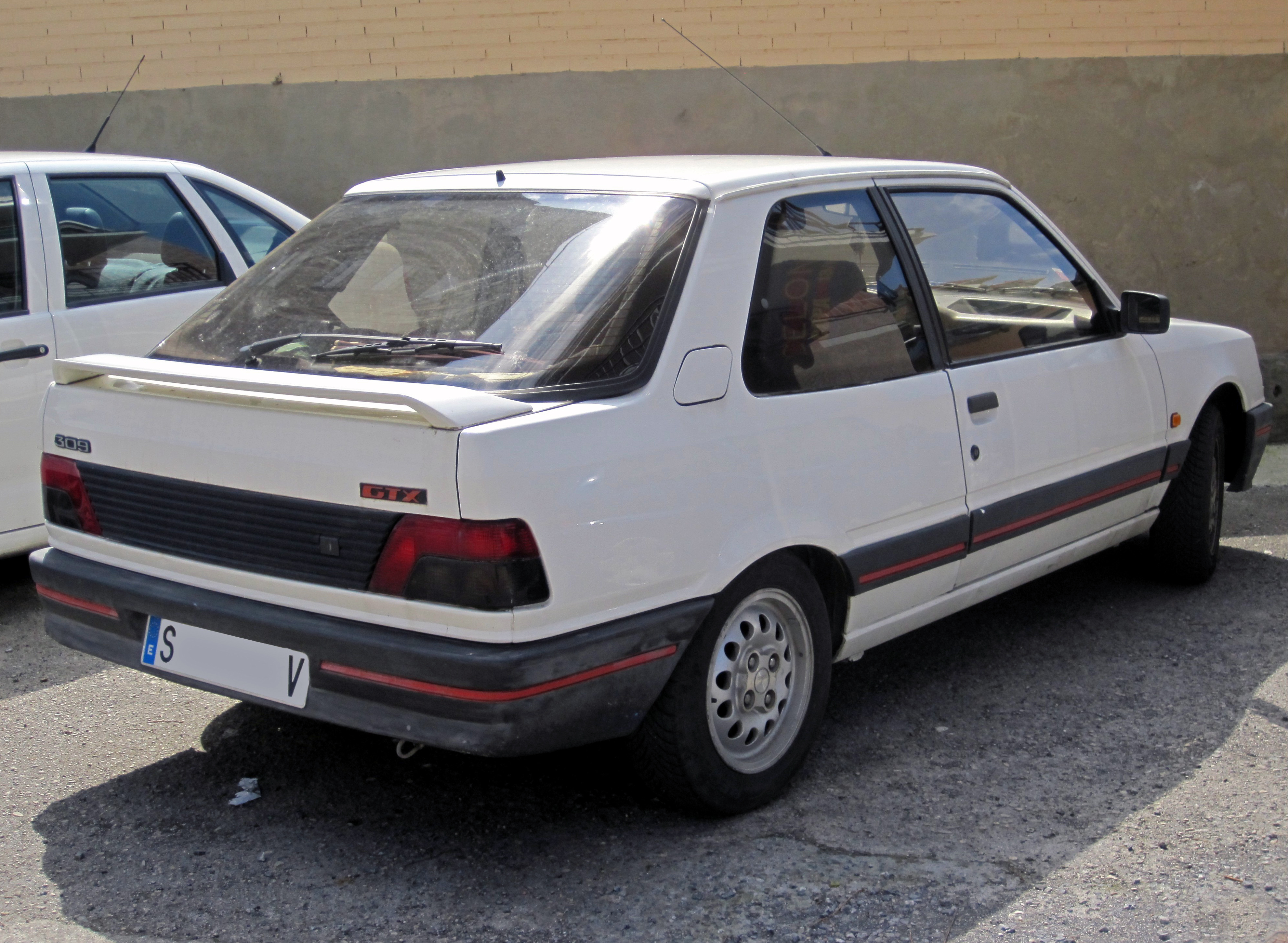 Not too common to spot and this one is so so so well cared for that I couldn't resist to snap it... and besides I had been wanting to see it closely for so long and finally did. Love those alloys, a good repaint (plastic parts included) and will look just like new! Santander (Cantabria) plate from 1989, seen in Castro Urdiales (Cantabria).